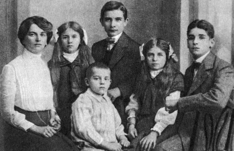 Inessa Armand with children